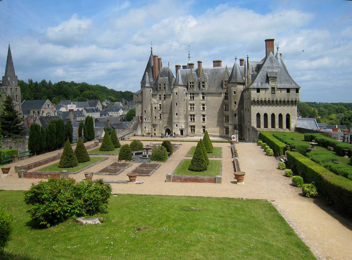 Château de Langeais, view from the gardens